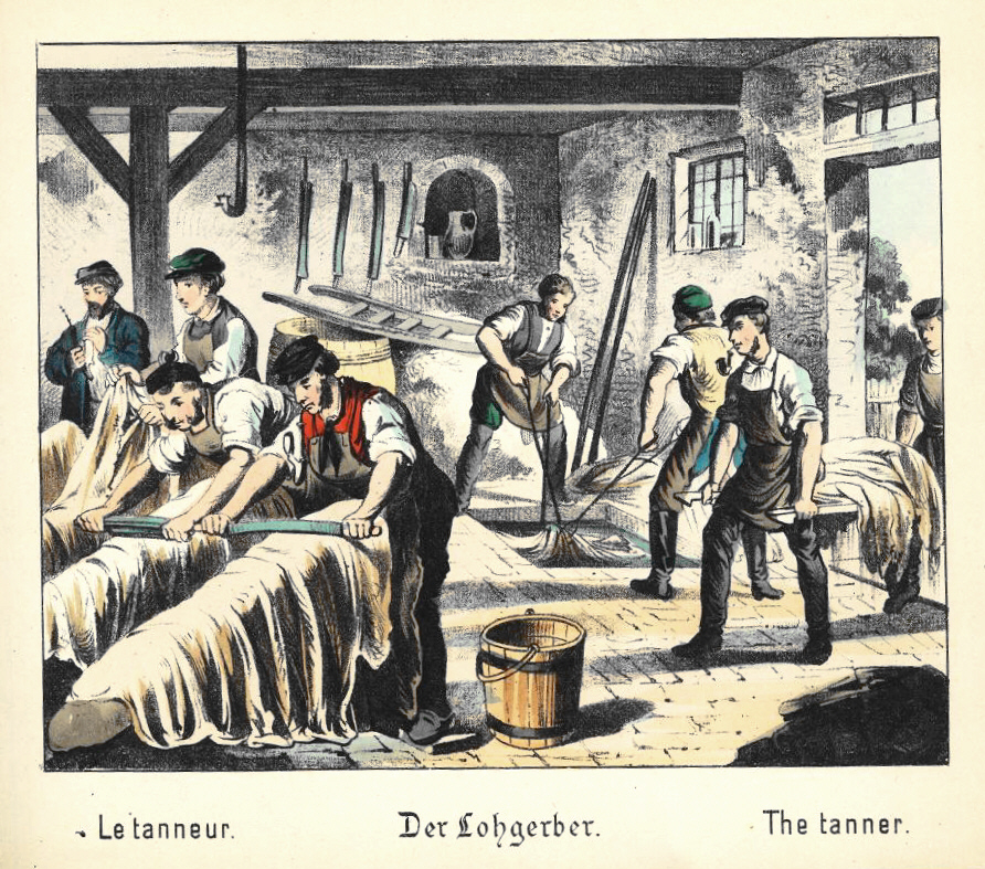 The tanner